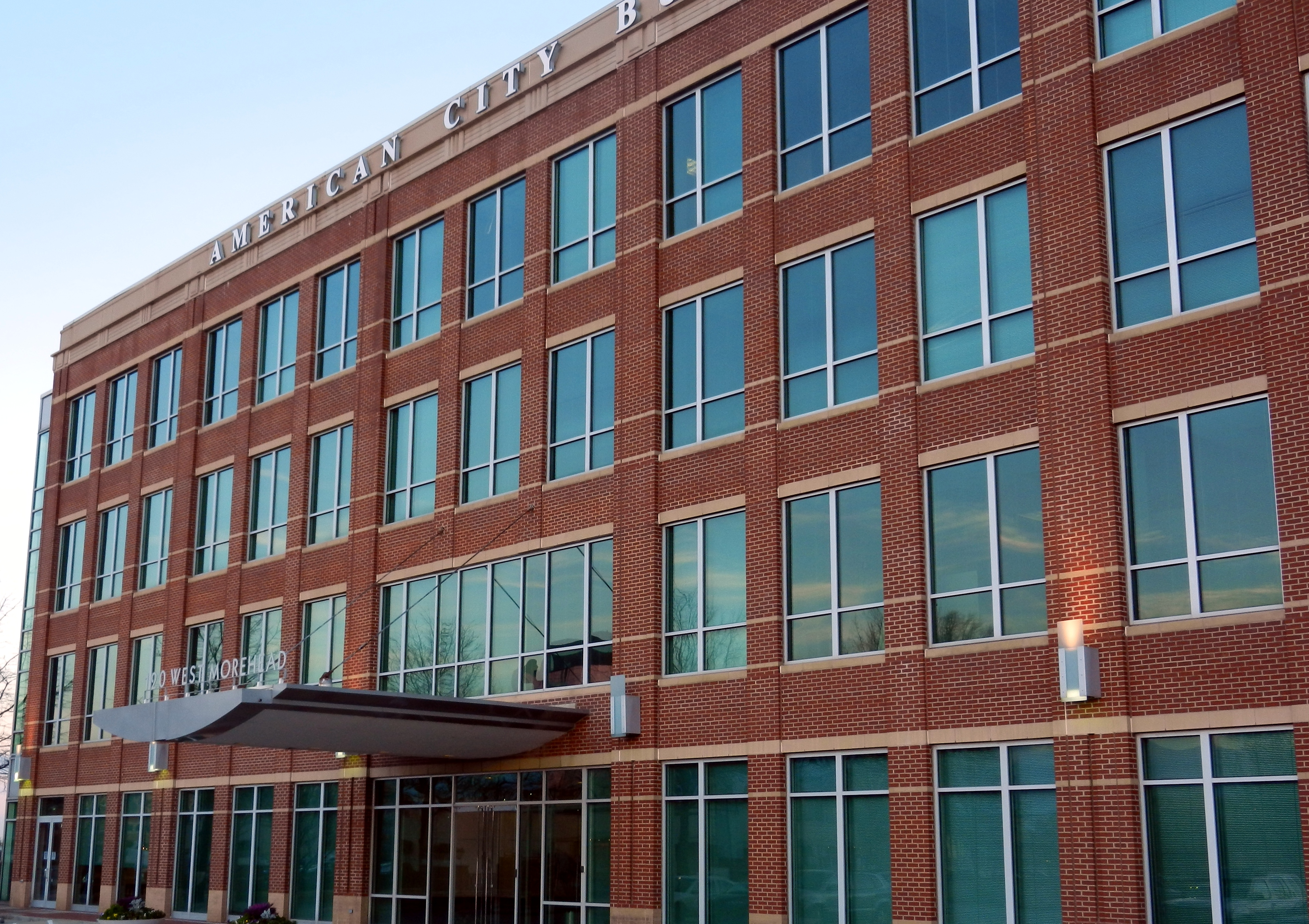 The American City Business Journals' corporate office are located in Charlotte, North Carolina